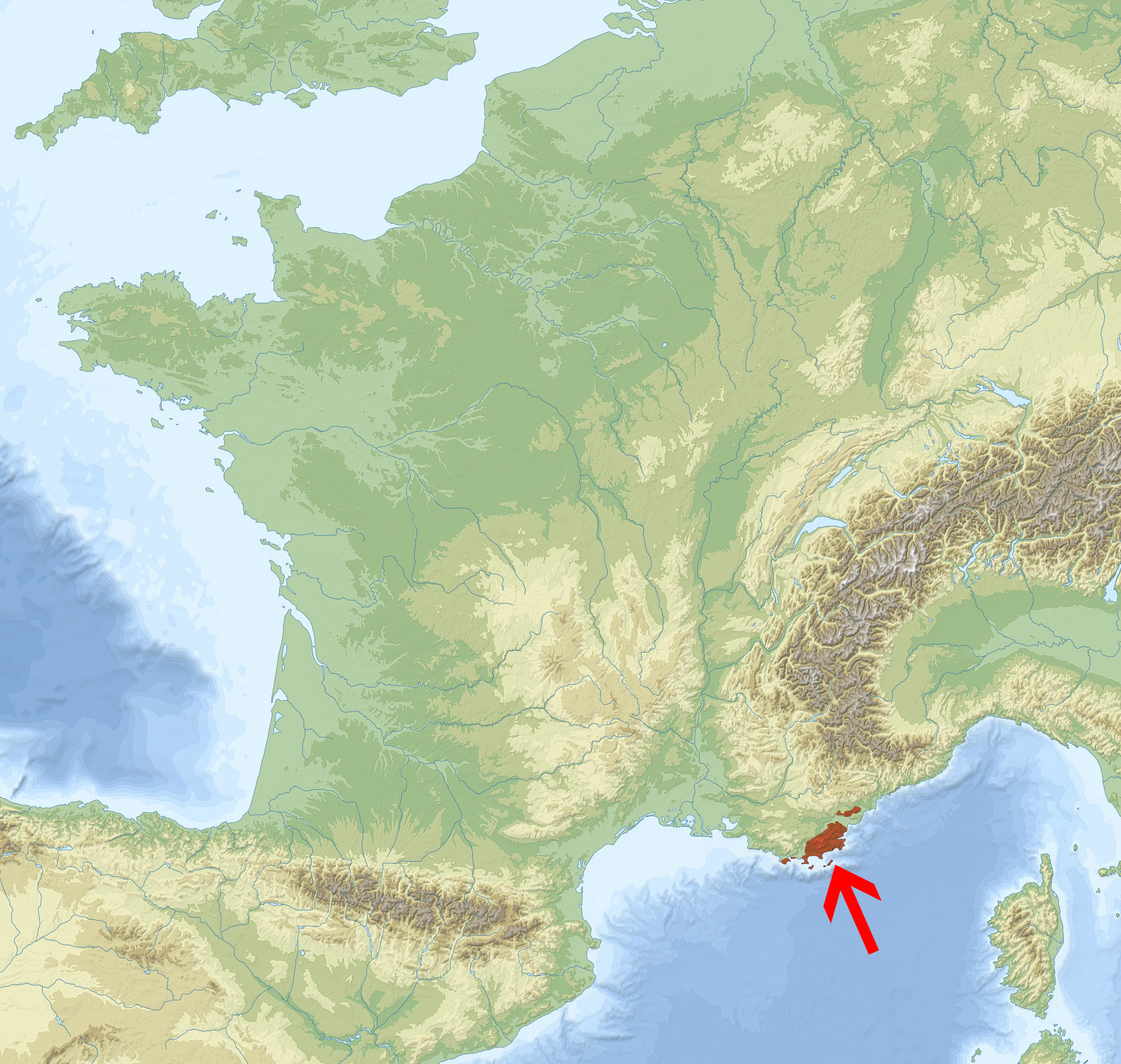 Localisation of the massif des Maures